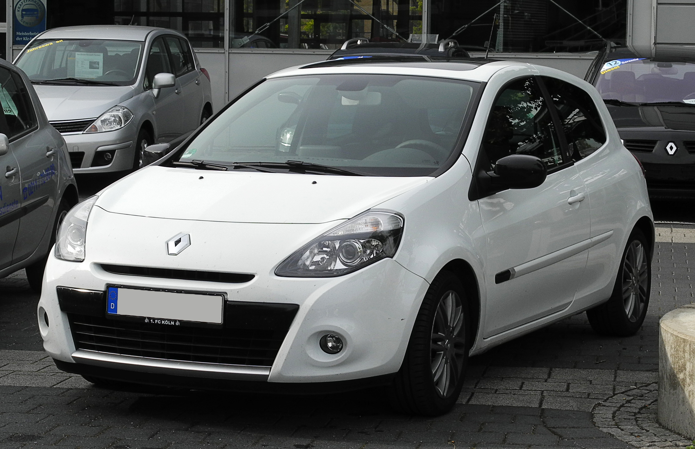 Renault Clio 20th (III, Facelift)